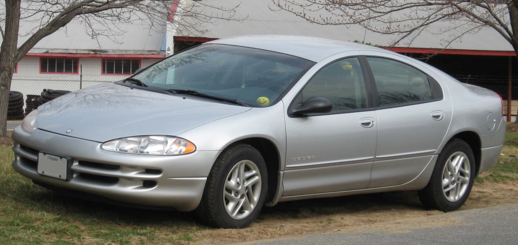 1998-2004 Dodge Intrepid photographed in USA.